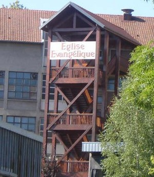 Evangelical Pentecostal Church of Besançon, located at 4 rue Larmet